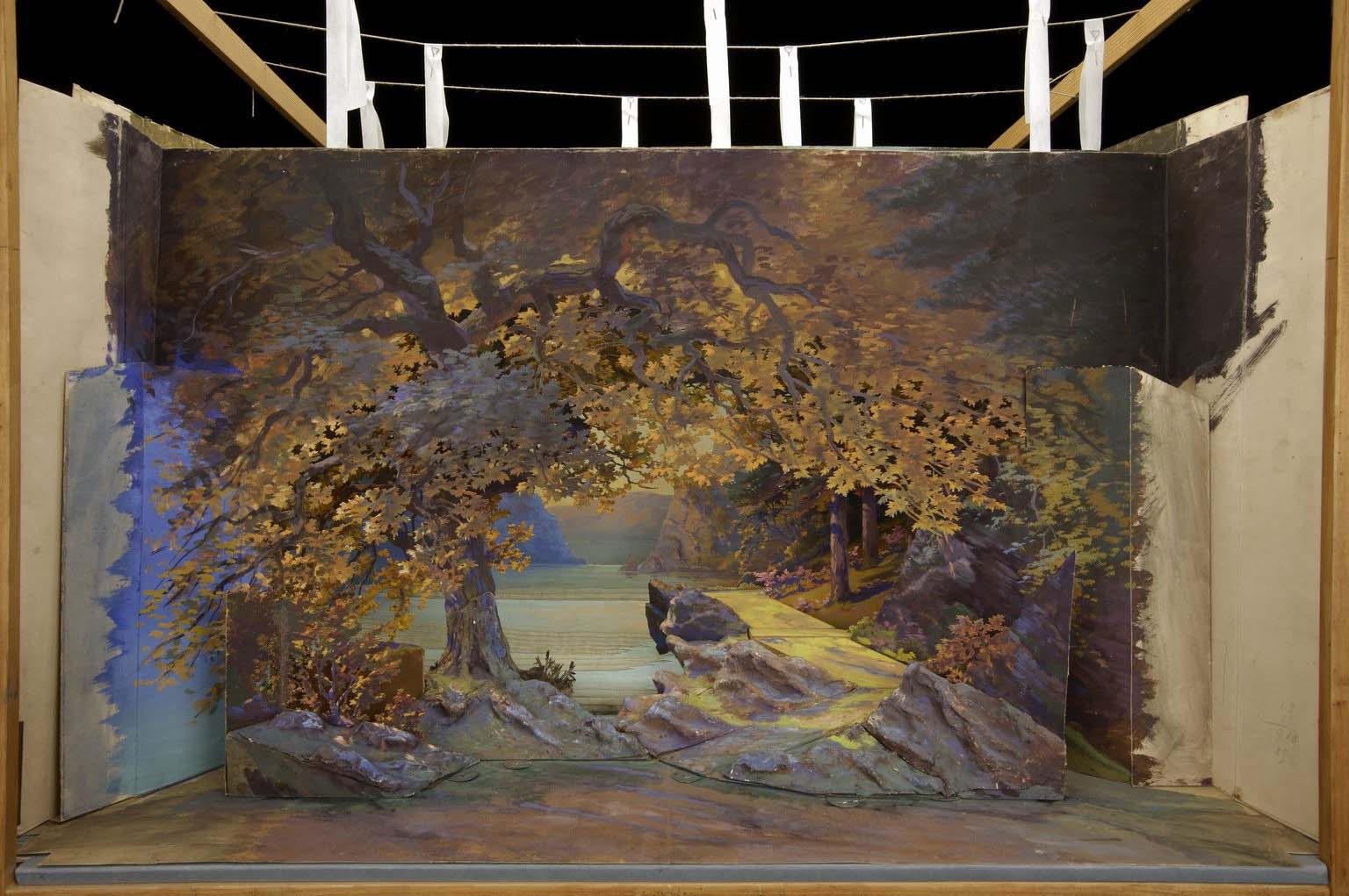 Dubosq's scale-model for Wagner's "Le crépuscule des dieux" (Opéra, Paris, 1908), Act III, scene 1